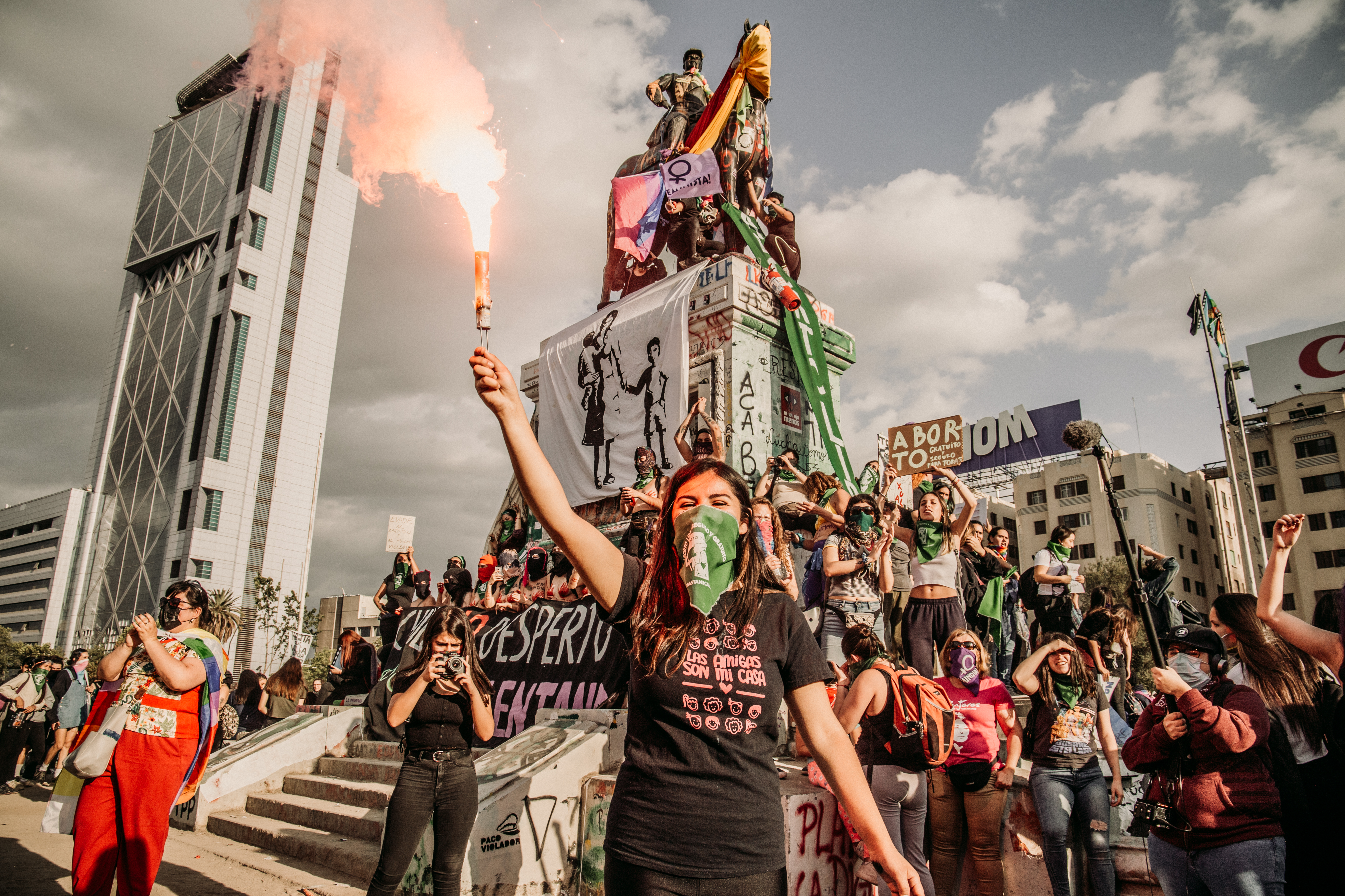 March against Sexist Violence in Plaza Dignidad, within the framework of the Social Outbreak in Chile.